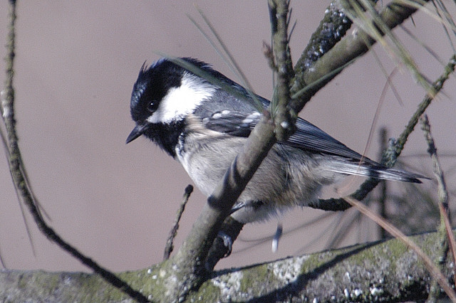 Periparus ater from Commanster, Belgian High Ardennes .